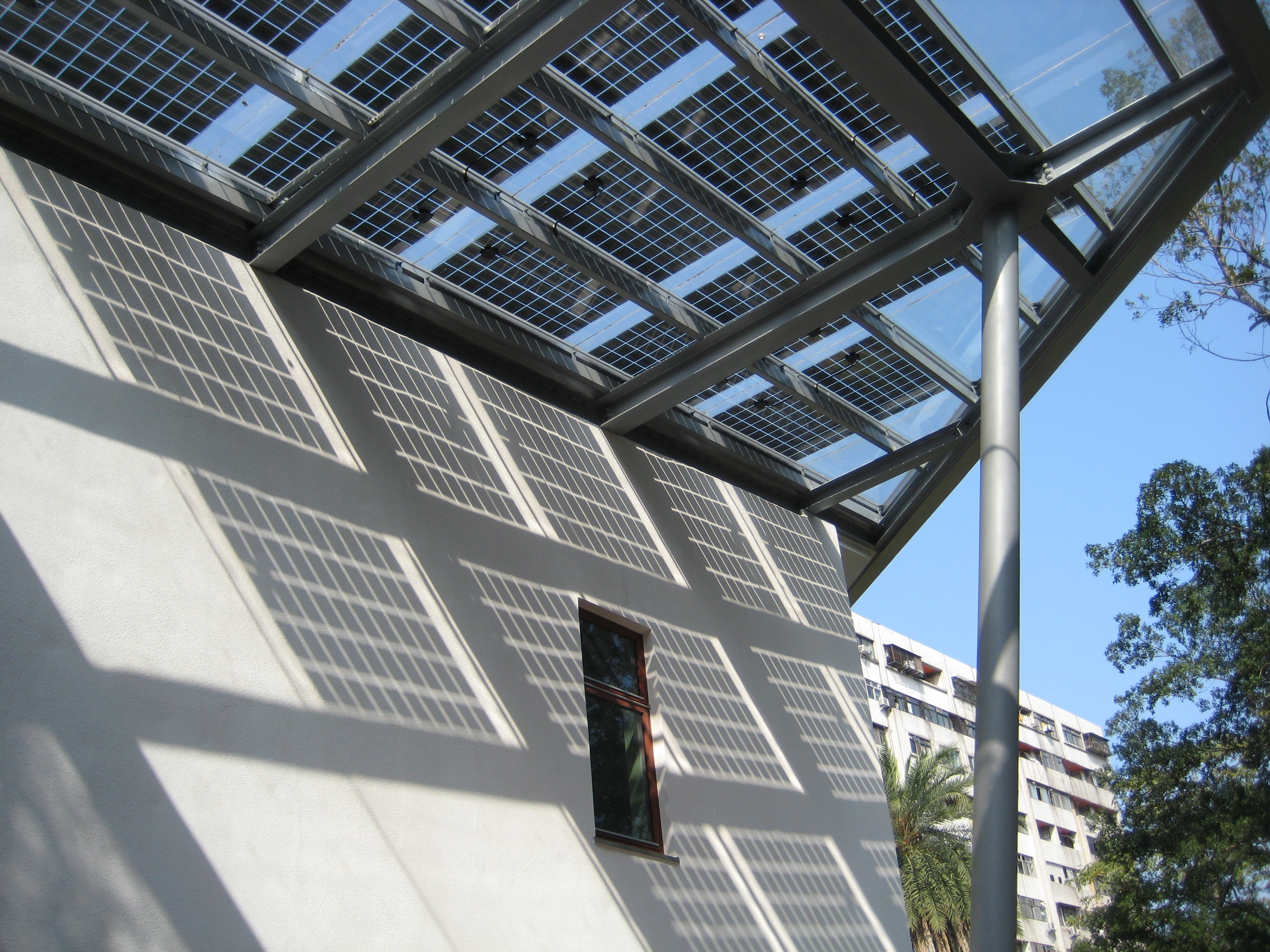 The Solar Library and Energy-Optimized House east facade is BIPV.